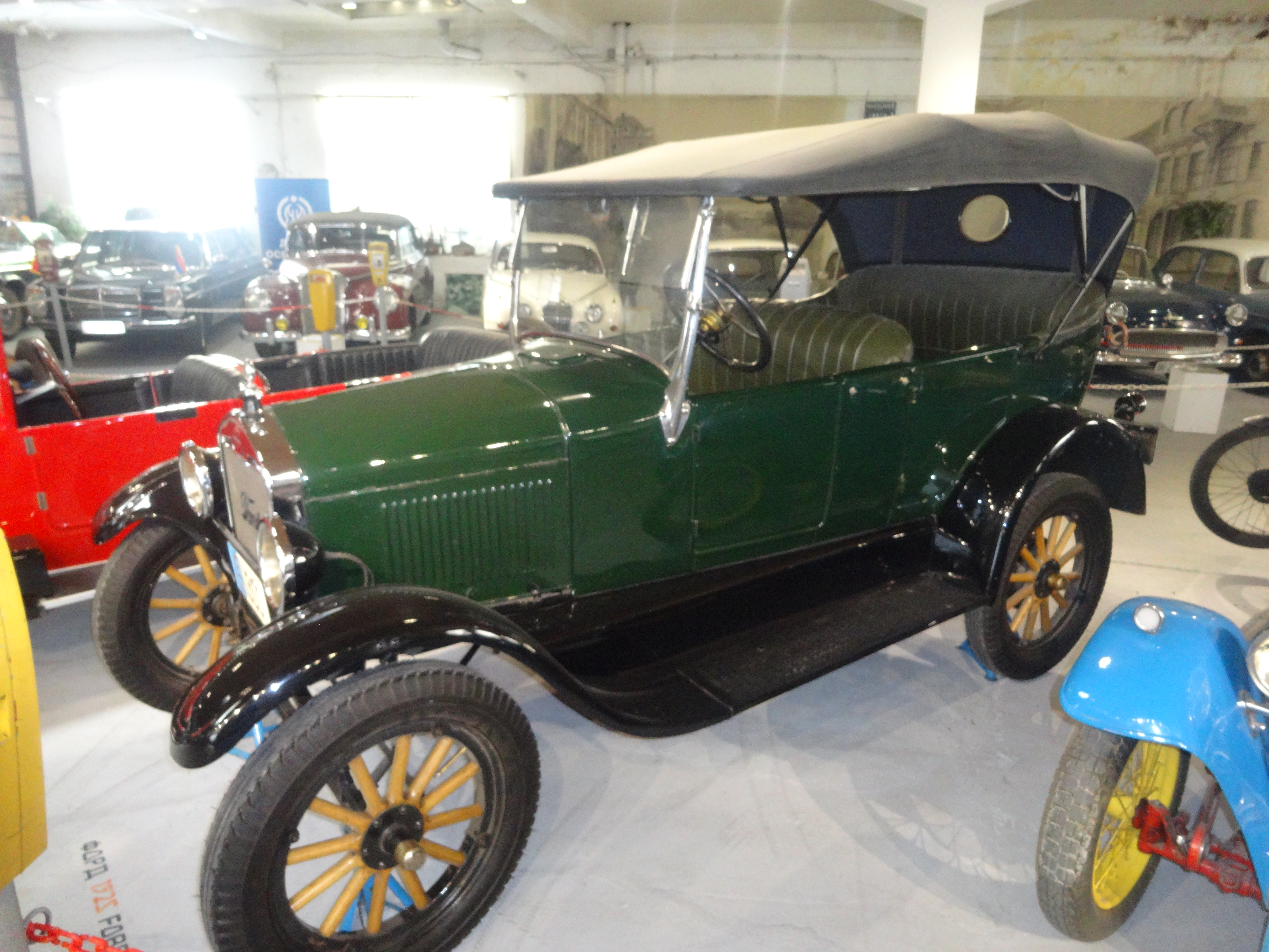 Engine: four cylinder Capacity: 2900 cm3 Power: 20 hp/1600 rpm. Max. speed: 500 km/h Transmission: two speed+reverse, gear change by pedal